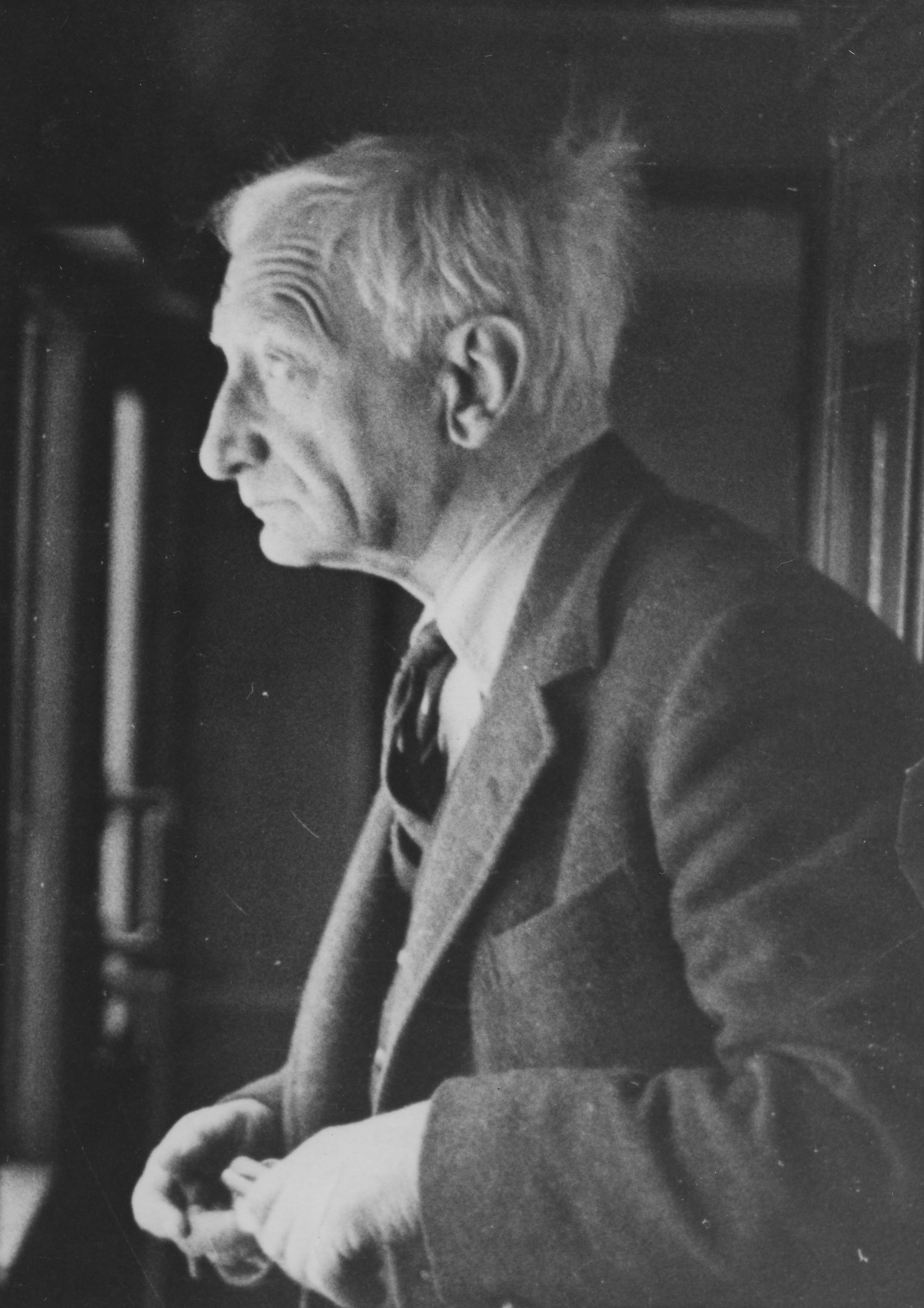 On a train, Micheline, January 1947 IMAGELIBRARY/1290 Persistent URL: William Henry Beveridge (1879-1963) was a student at the London School of Economics in 1903-04 and its Director from 1919-37. His most famous contribution to society is the Beveridge Report (officially, the Social Insurance and Allied Services Report) of 1942, the basis of the 1945-51 Labour Government's legislation program for social reform.